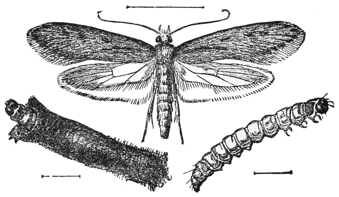 Clothes moth and its stages of development